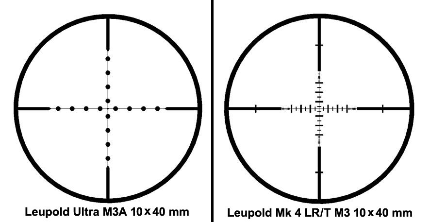 Reticles of the scopes used along with the M24 sniper weapon system (US Army)